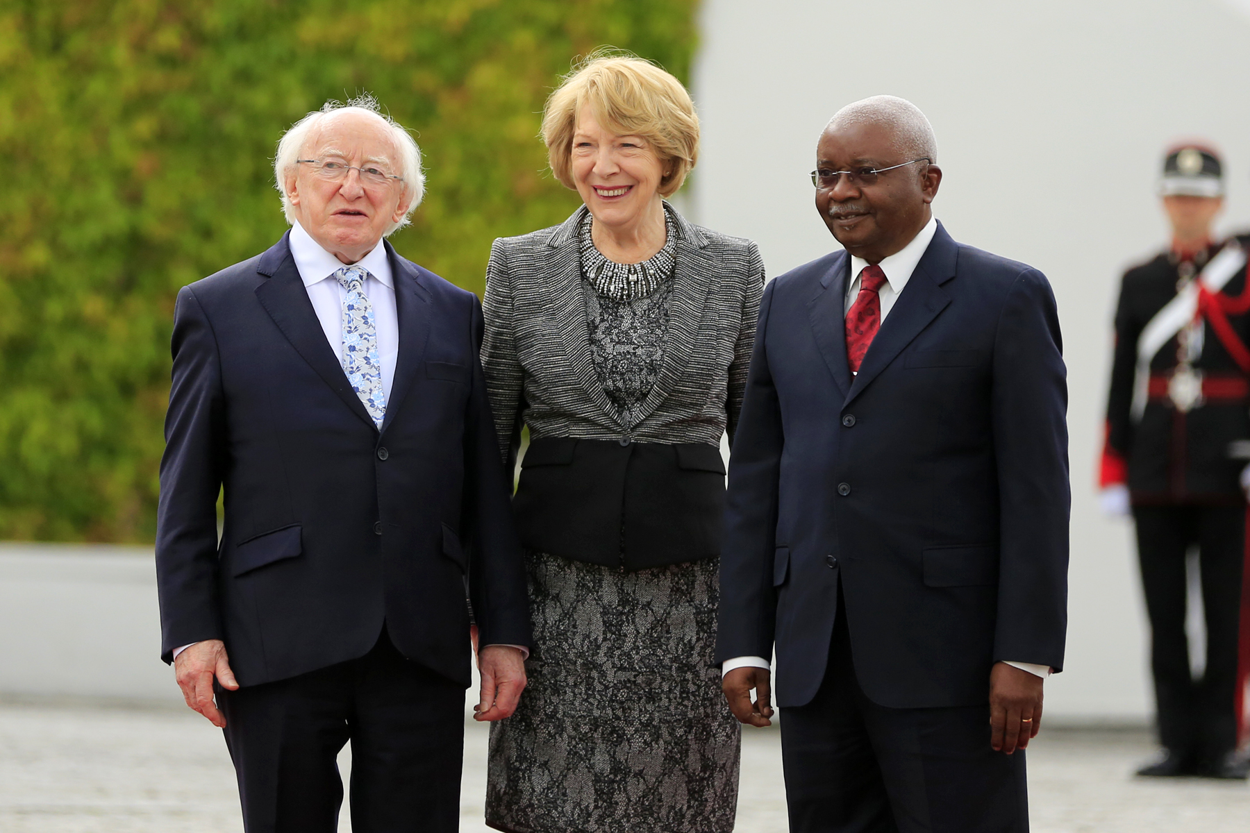 President Michael D Higgins, Sabina Higgins and President Armando Emilo Guebza